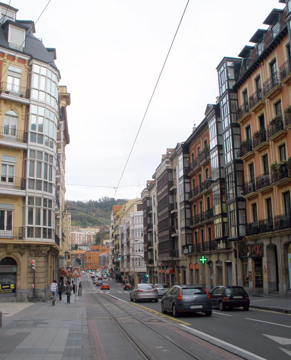 Aspecto de la Calle Buenos Aires de Bilbao (País Vasco, España)